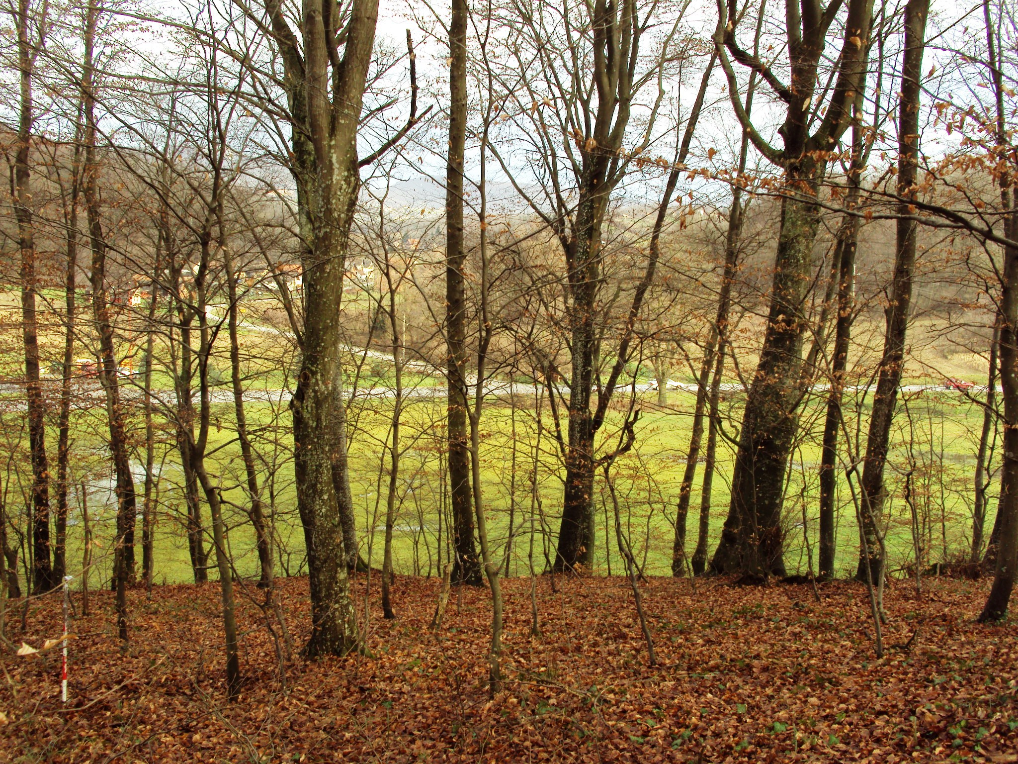 Fagus sylvatica, Vinarec, Croatia